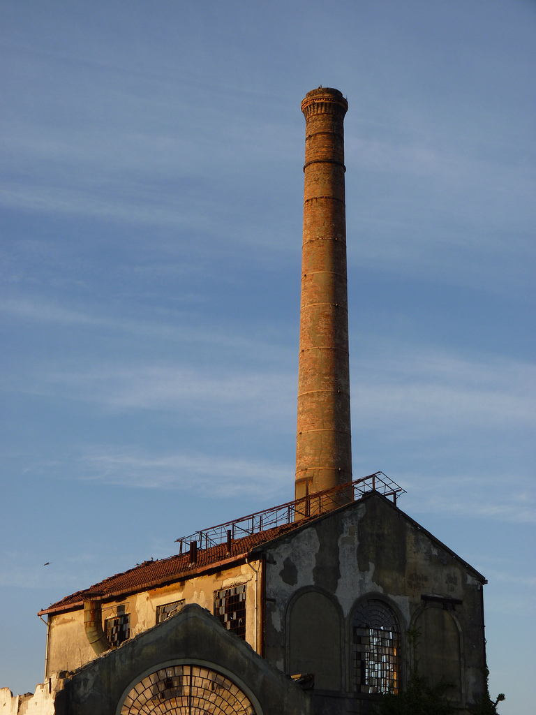 Once a big textile industry, now condemned to be a yet another residential area in Matosinhos.